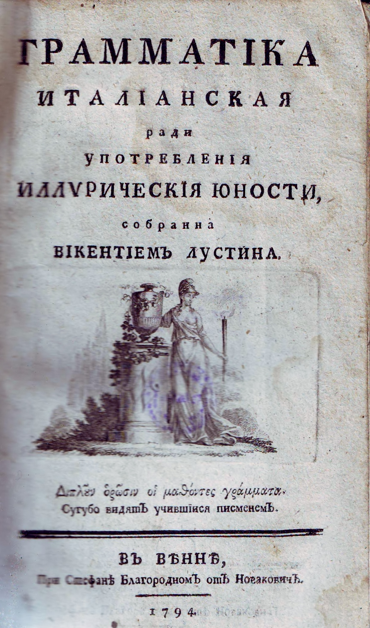 The first page of the book by Vikentije Ljuština Gramatika italijanskaja (1794). Srpski (latinica): Prva strana knjige Vikentija Ljuštine Gramatika italijanskaja (1794).